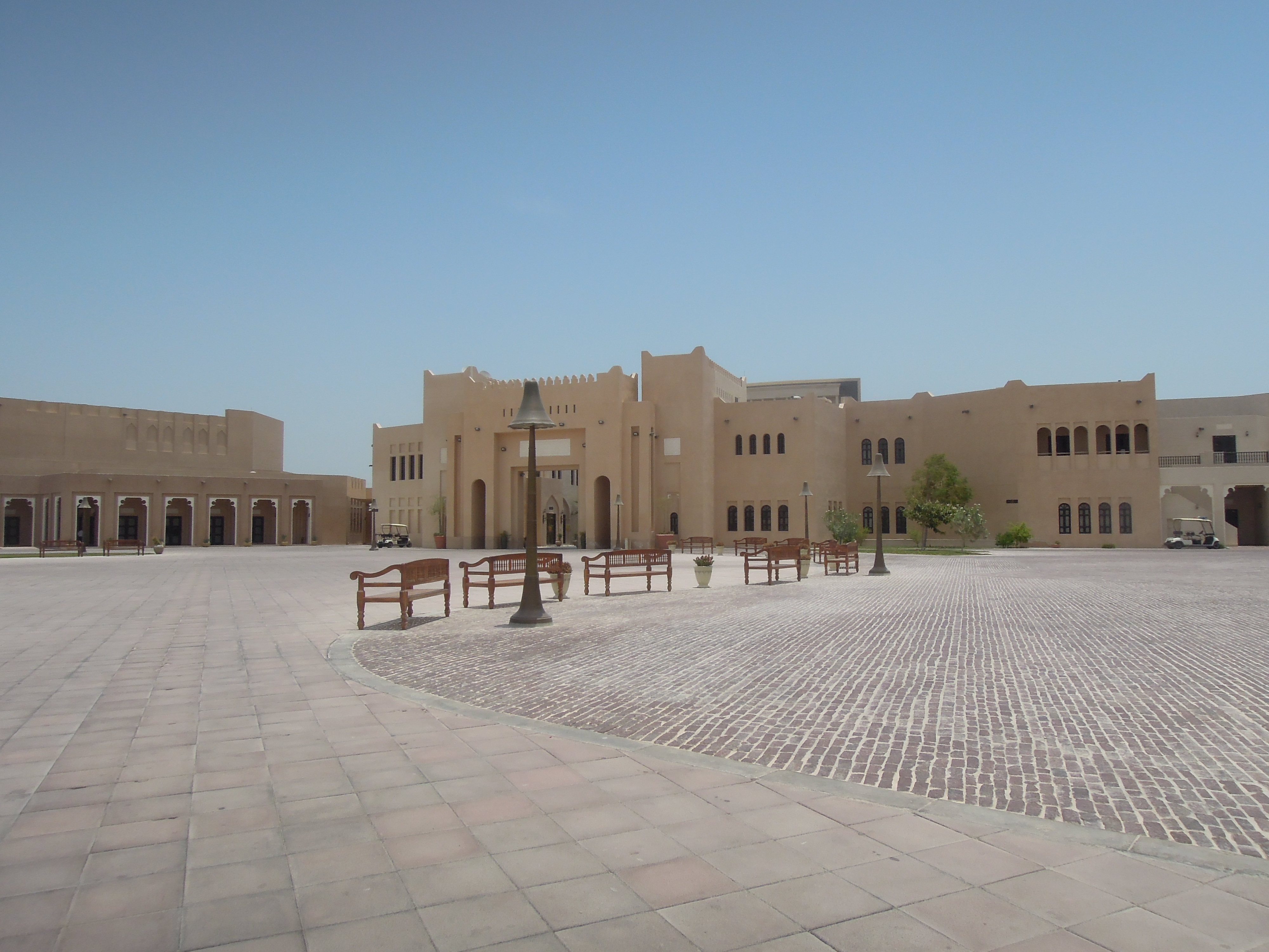 Outside view of Katara Cultural village, Doha